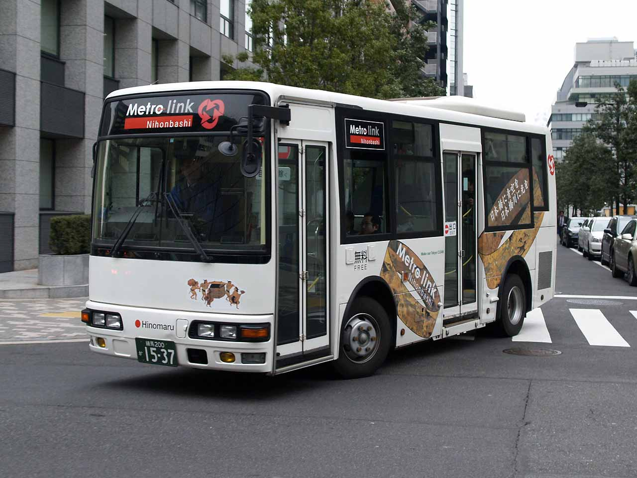 Fleet of Metro Link Nihonbashi. Model: Mitsubishi Fuso Aero Midi ME PA-ME17DF License plate: TKN200KA1537（練馬200か1537） Place: Nihonbashi-Muromachi, Chuo ward, Tokyo Japan